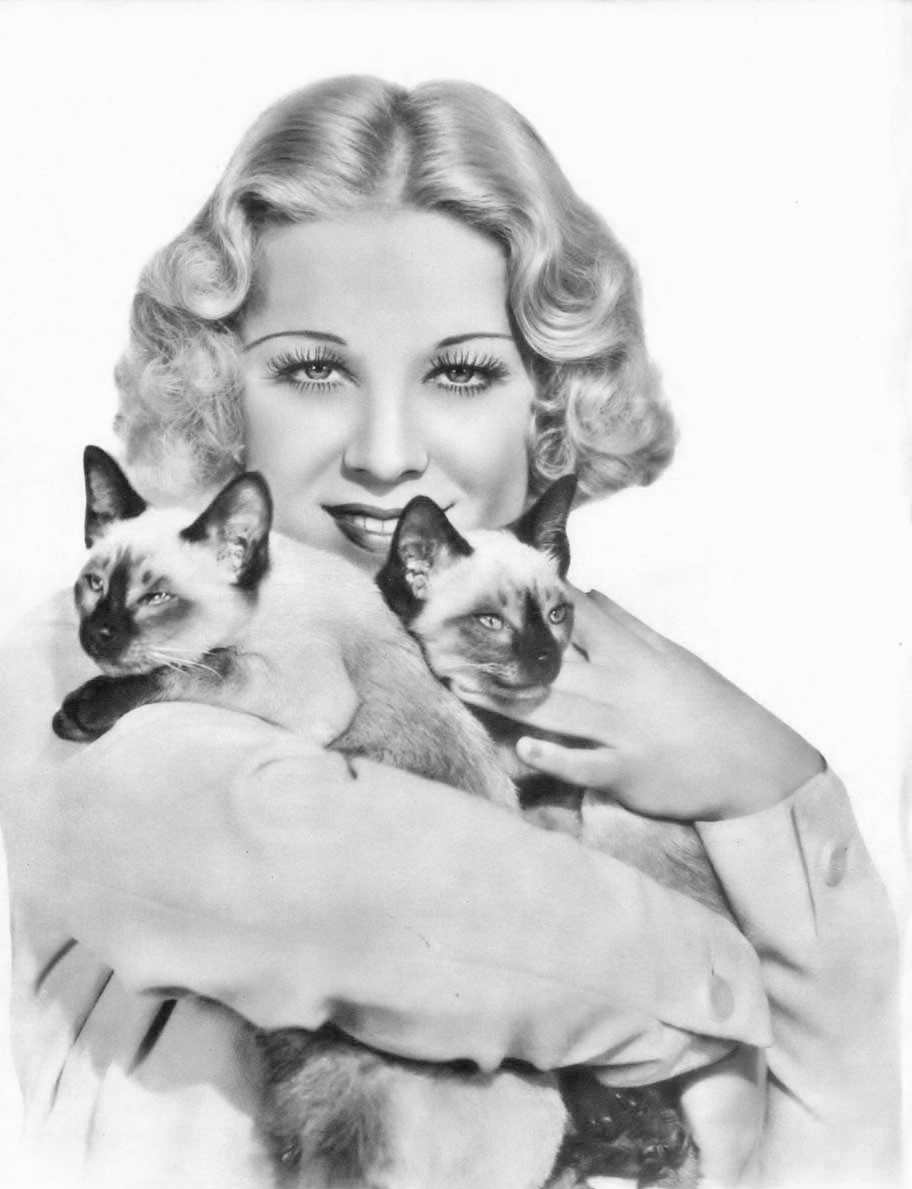 Publicity photo of Glenda Farrell for Argentinean Magazine. (Printed in USA)